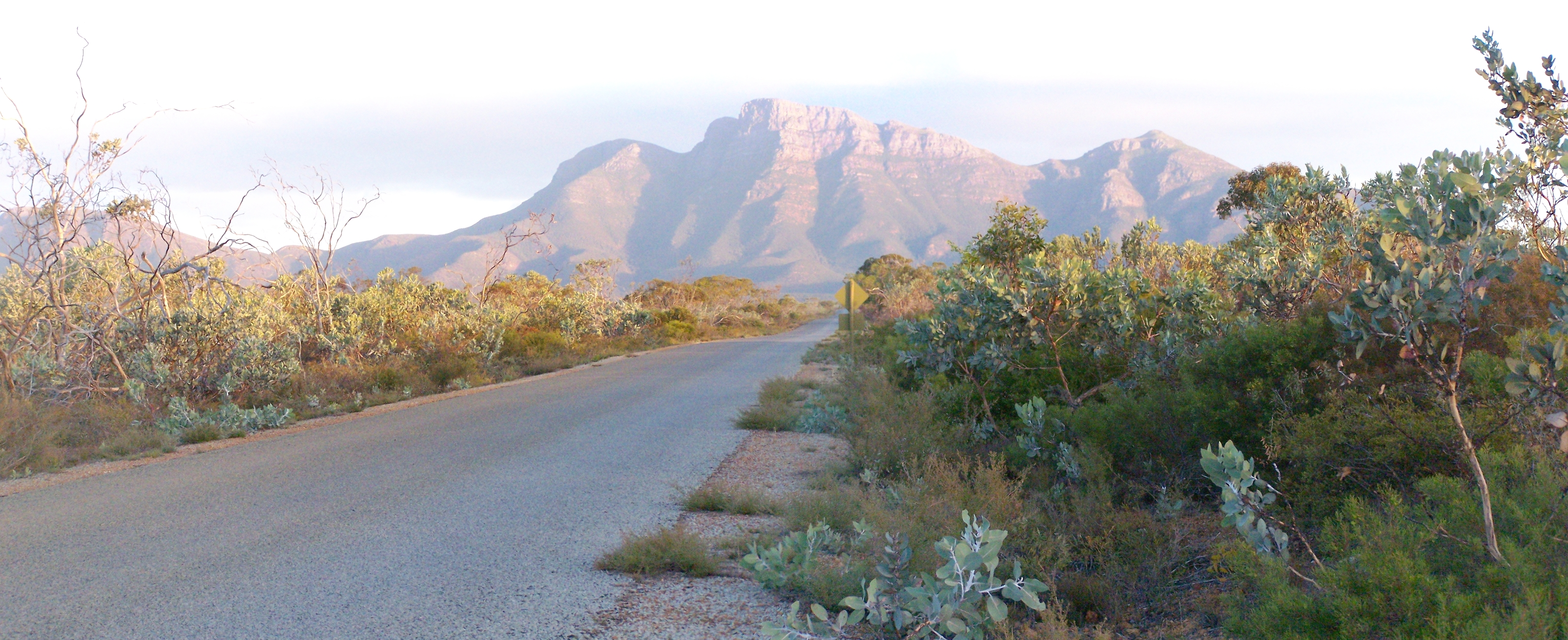 Bluff Knoll, Stirling Range Western Australia, image was recreated using Hugin with the original two images to remove stitching marks from original version.